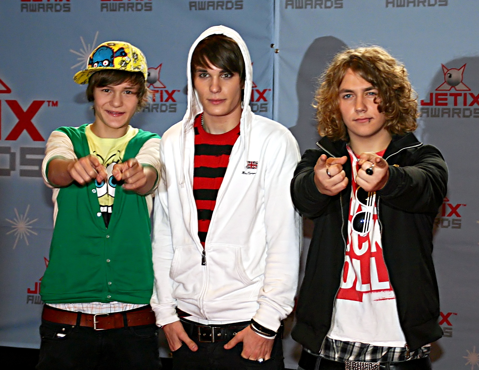 Rockband "Killerpilze" during the conferment of the JETIX Award at the youth fair "YOU", Berlin. From left to right: Fabian Halbig, Jo Halbig, Maximilian Schlichter.